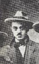 Notis Kamperos, the man who gave Olympiacos its name and a high-ranking officer of the Hellenic Navy